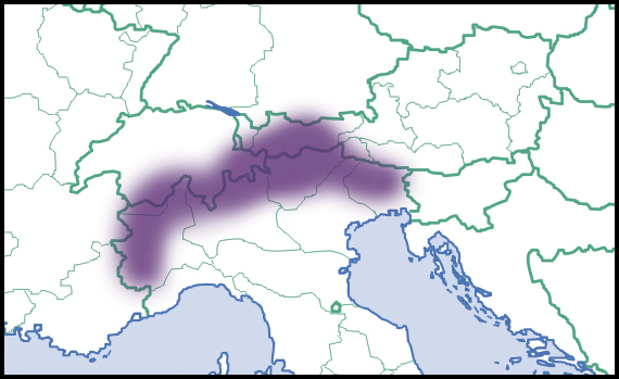 Eucobresia pegorarii (Pollonera, 1884). Distributional range in Europe, scientific state of knowledge of 2012. Source description in English. Light colour indicated rare occurrences or regions where the species could eventually be expected to occur. Dark colour indicated relatively reliable occurrences, as well as regions where the species was expected to occur, and where the species was not known to be extremely rare. Dark colour indications were not necessarily based on published records. Species summary in AnimalBase